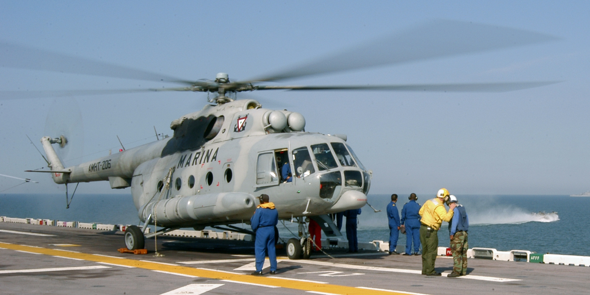 A Mexican Navy Mi-8 helicopter stands by for passengers on the flight deck aboard the amphibious assault ship USS Bataan (LHD 5), off the coast of Mississippi.